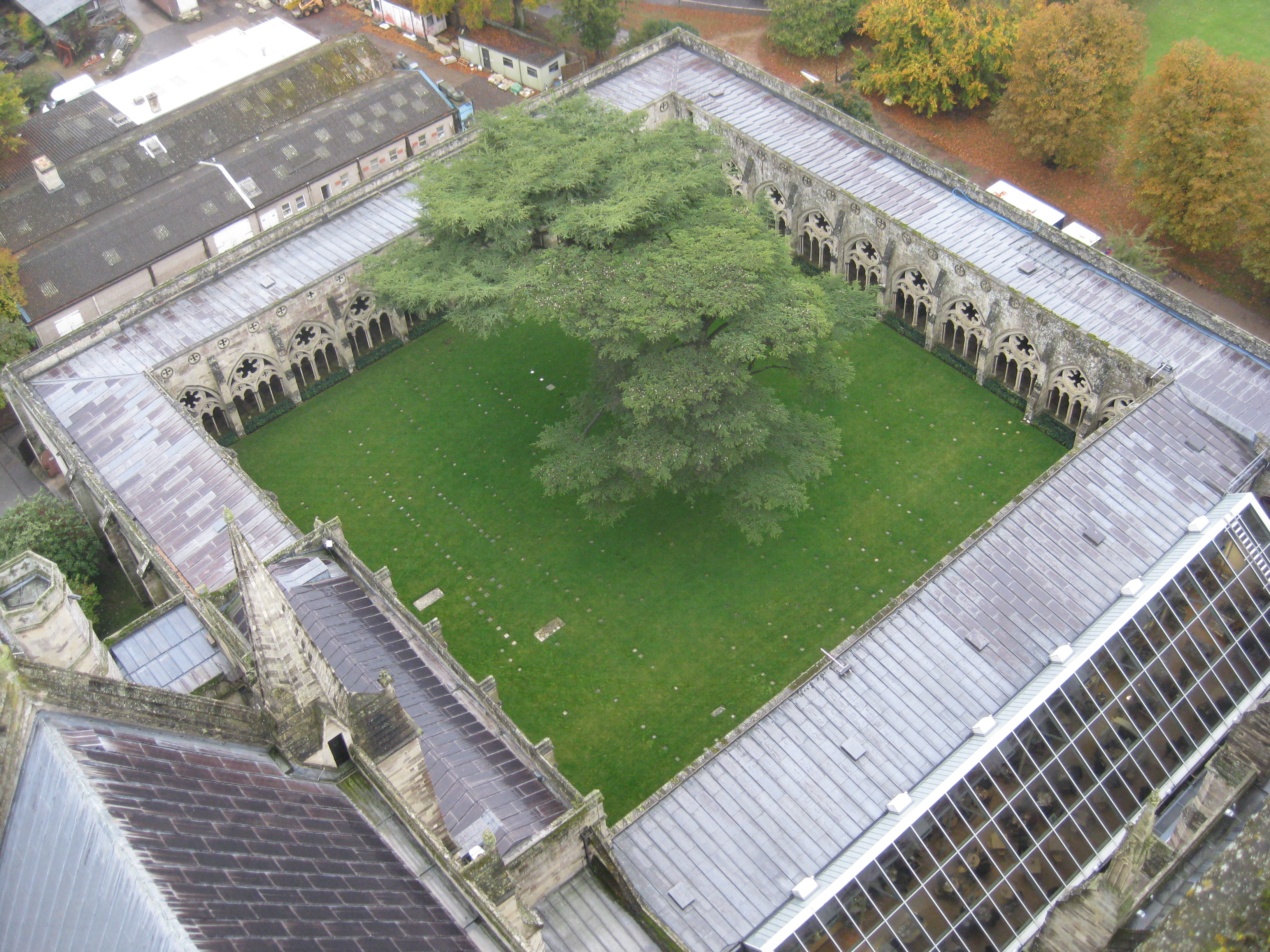 Salisbury Cathedral's cloister (as seen from the top of the cathedral's tower). In the centre, the garth has cedars from 1837 (Victoria's accession). The dotted lines are lawn-level memorial marker stones, as the garth was also a burial place.[1] The cathedral's shop and restaurant area can be seen through the glass roof.